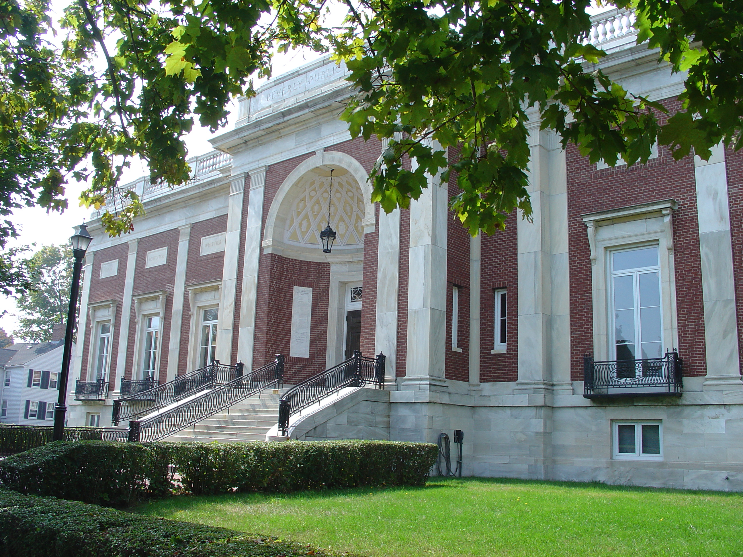 Beverly Public Library 32 Essex Street Beverly, Massachusetts